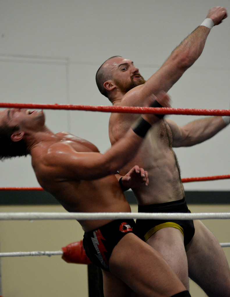 Biff Busick tangles with Ring of Honor's Roderick Strong